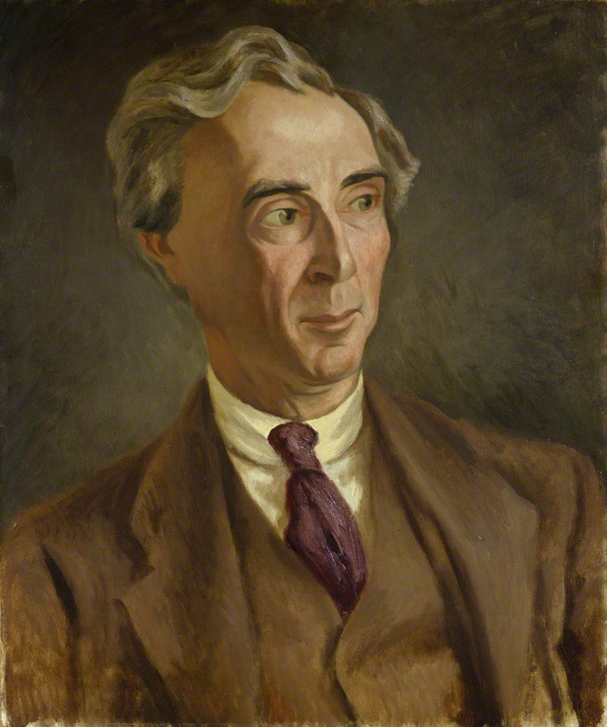 Bertrand Russell. Oil painting by Roger Fry, 1923.